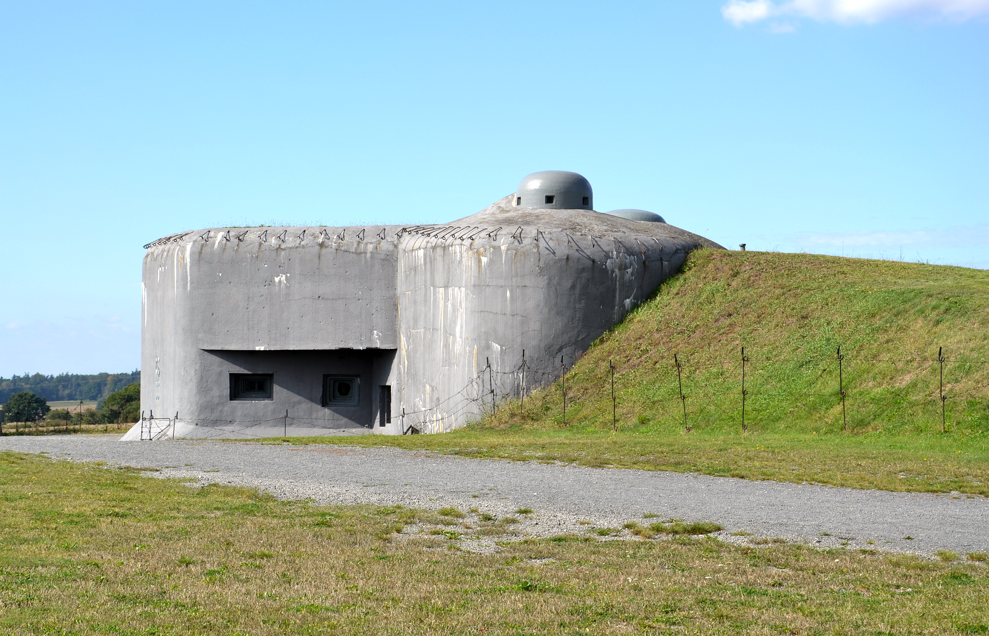 MO S-19 Alej casemate, Museum of the fortifications in Hlučín, Czech Silesia